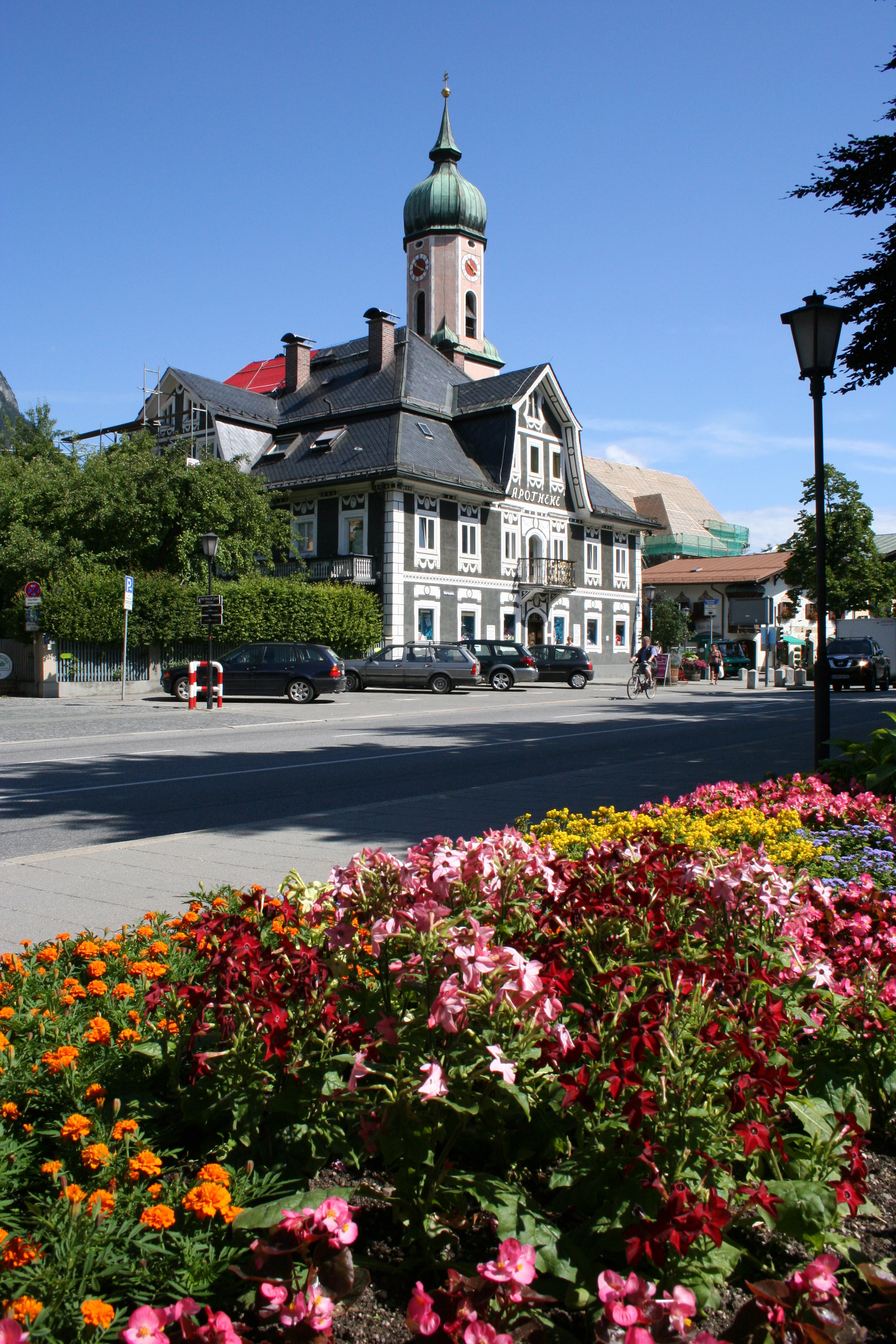 The old pharmacy and church in Garmisch